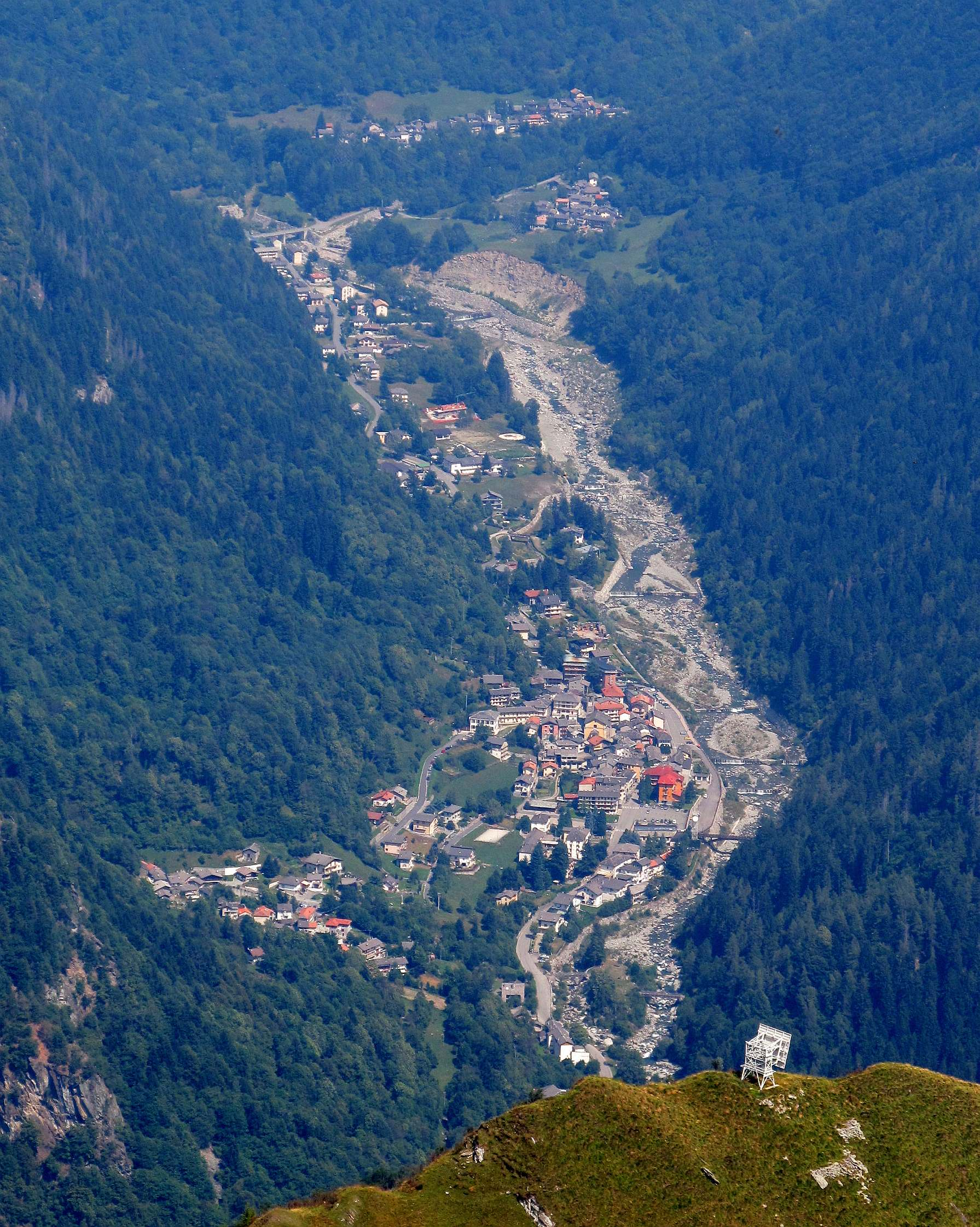 Ronco Canavese (TO, Italy) seen fron cima Rosta